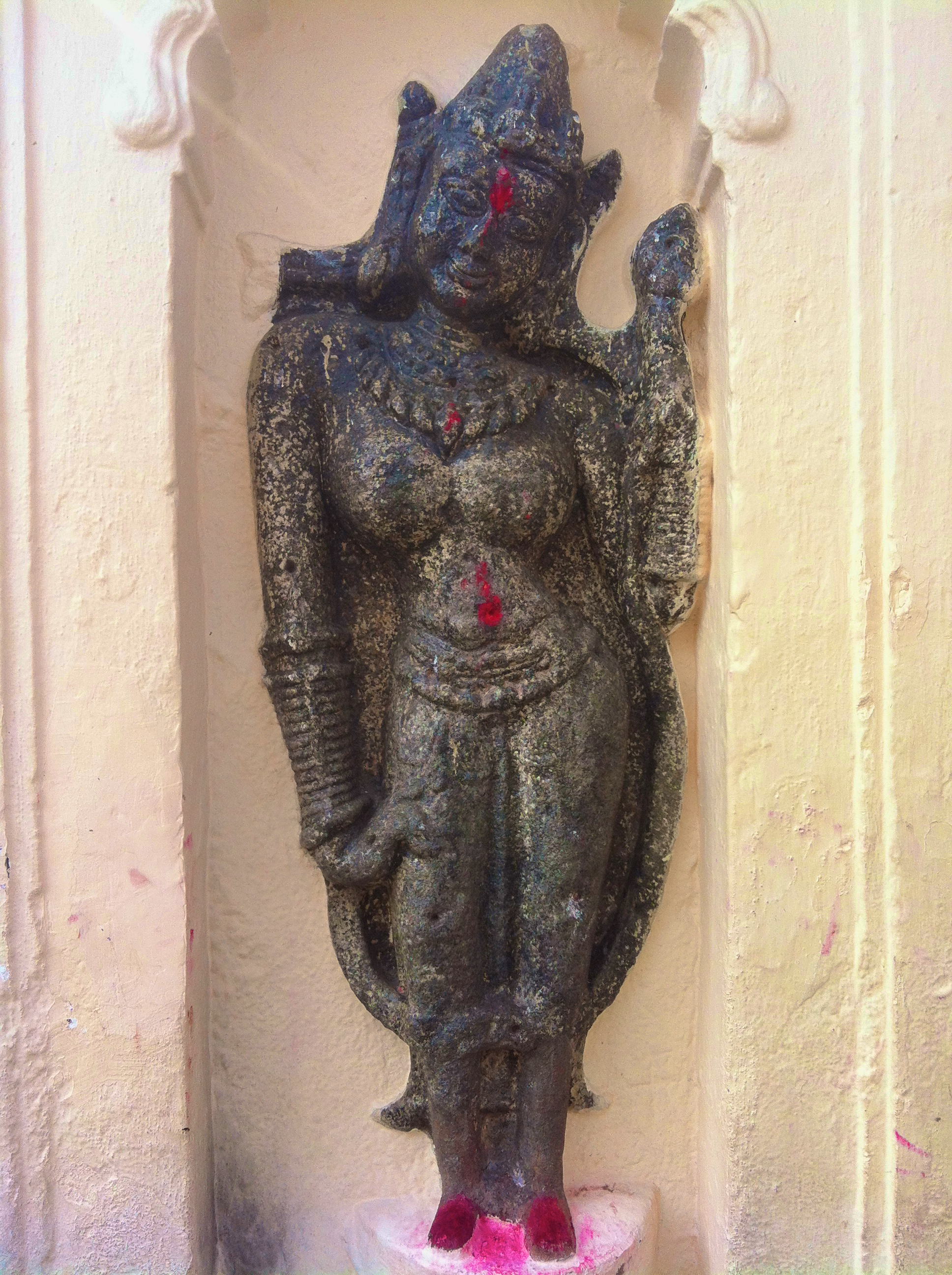 Idol on the wall of Kamakhya temple, Guwahati, Assam